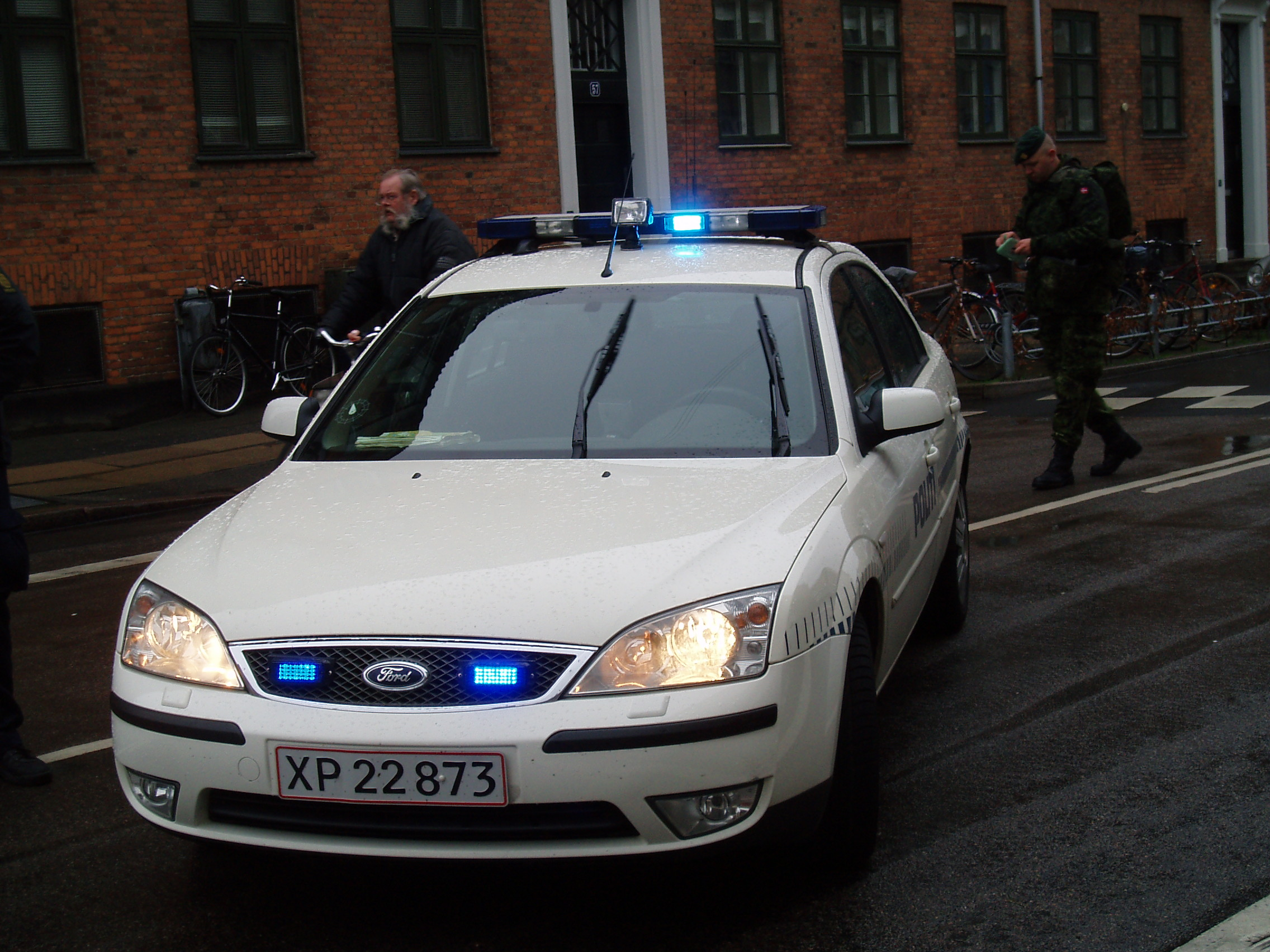 Copenhagen Police Department Ford Mondeo, regular patrol unit.